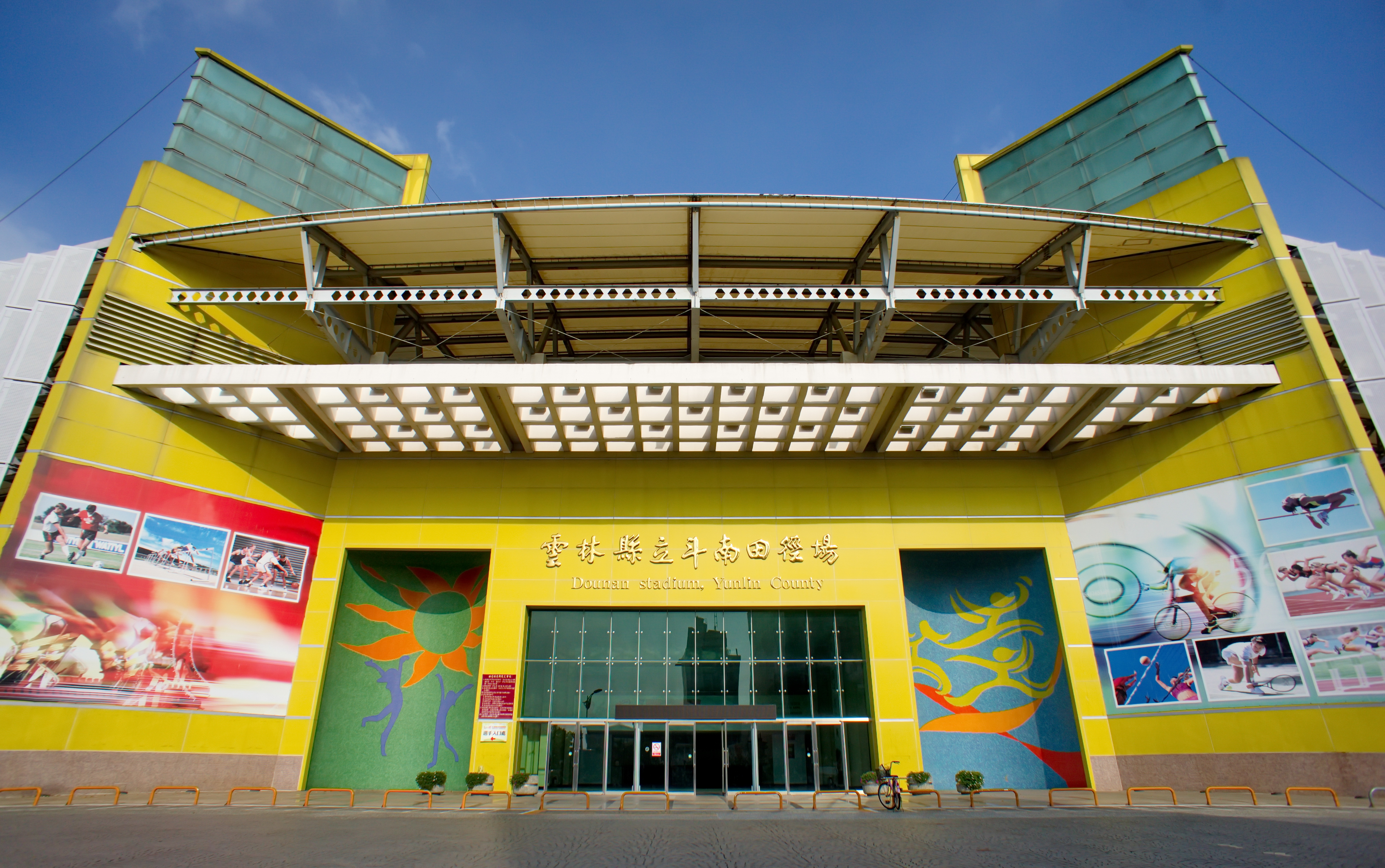 Dounan Stadium, Yunlin County, Taiwan.